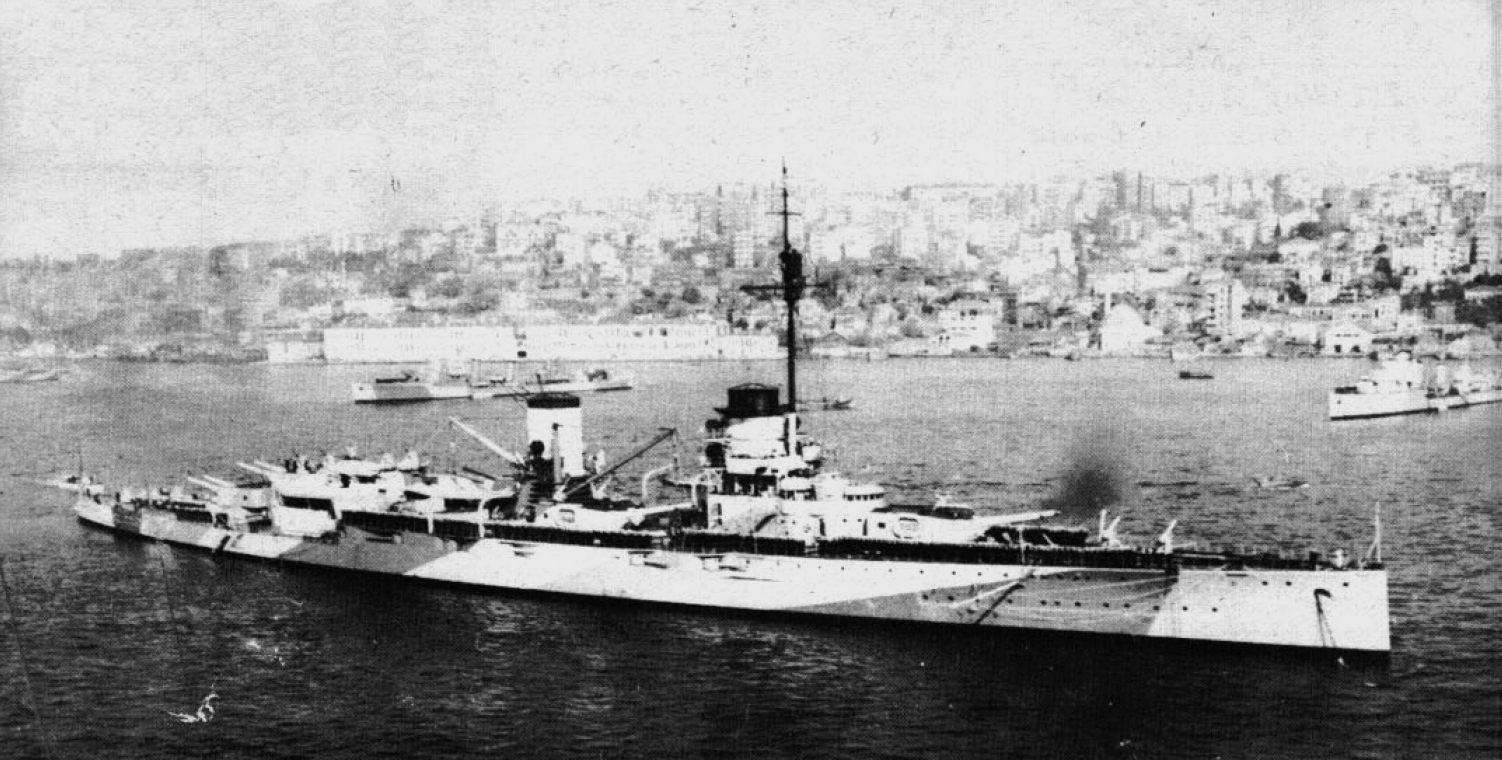 The Turkish battlecruiser Yavuz with two destroyers at Istanbul, Turkey, circa in May 1947. The photo was taken from the visiting U.S. Navy aircraft carrier USS Leyte (CV-32). Leyte, with assigned Carrier Air Group 7 (CVG-7), was deployed to the Mediterranean Sea from 3 April to 9 June 1947.